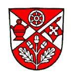 Coat of Arms of Eichenbühl